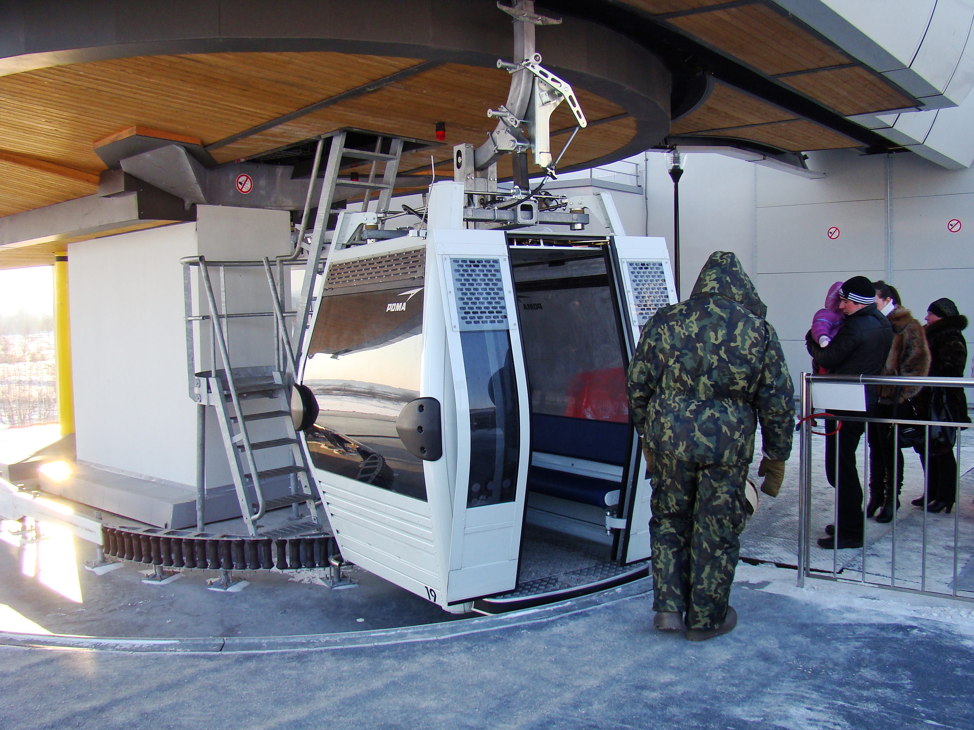 Nizhny Novgorod aerial tramway. People boarding on the cabine